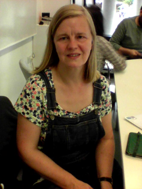 Nina Allan at Edge Lit 5 2016